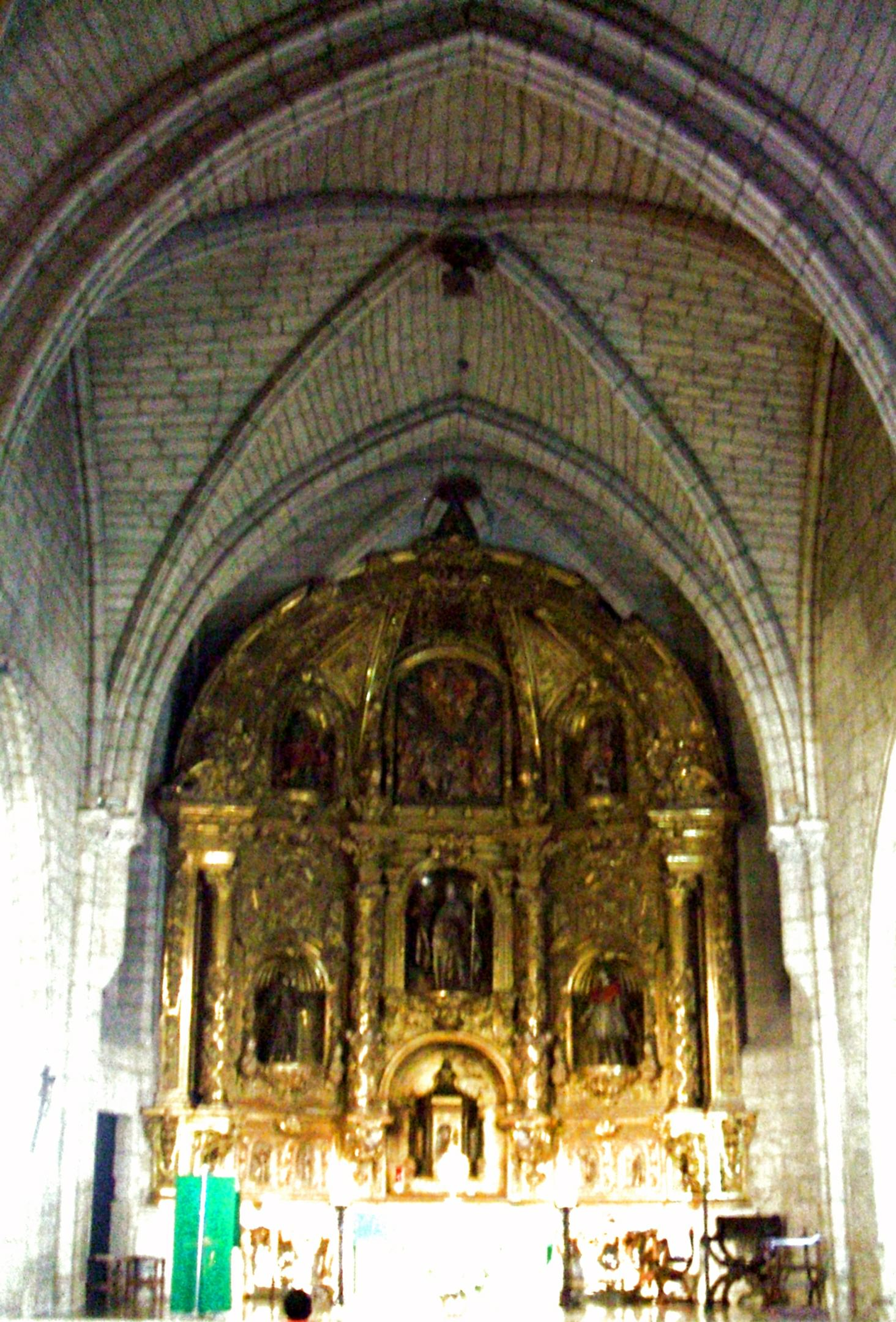 Interior de la iglesia del Convento de Santa Clara, Burgos (Castilla y León, España)